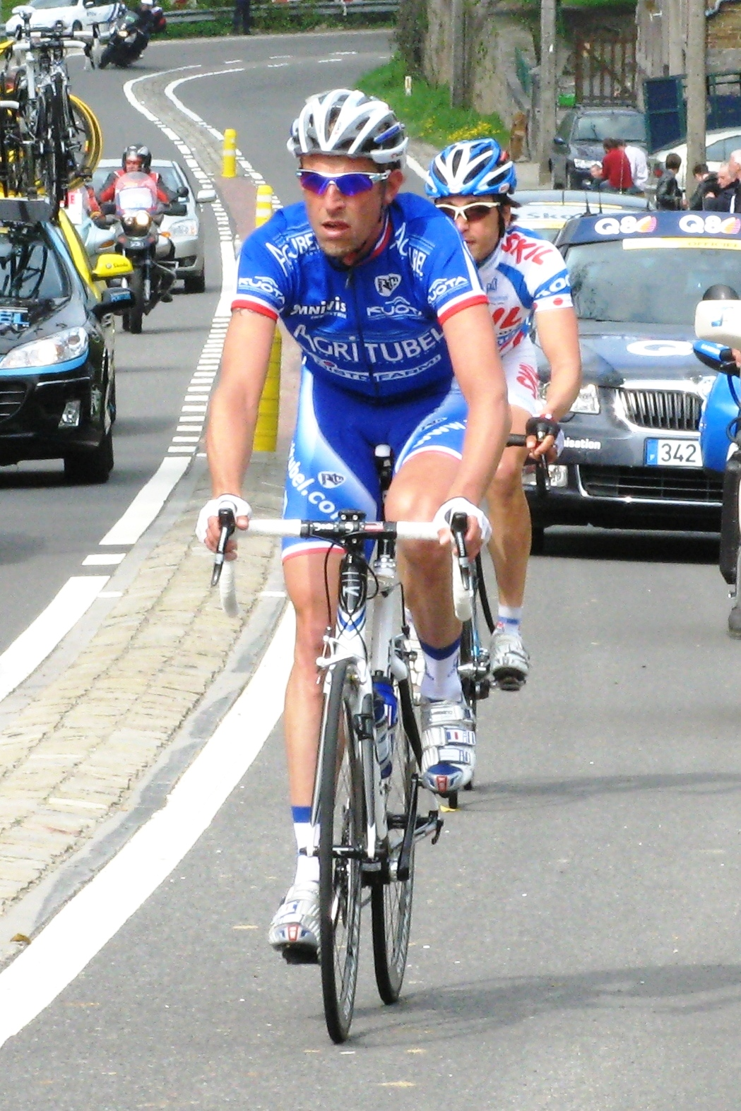 Christophe Moreau in côte de Pailhe, Flèche wallone 2009